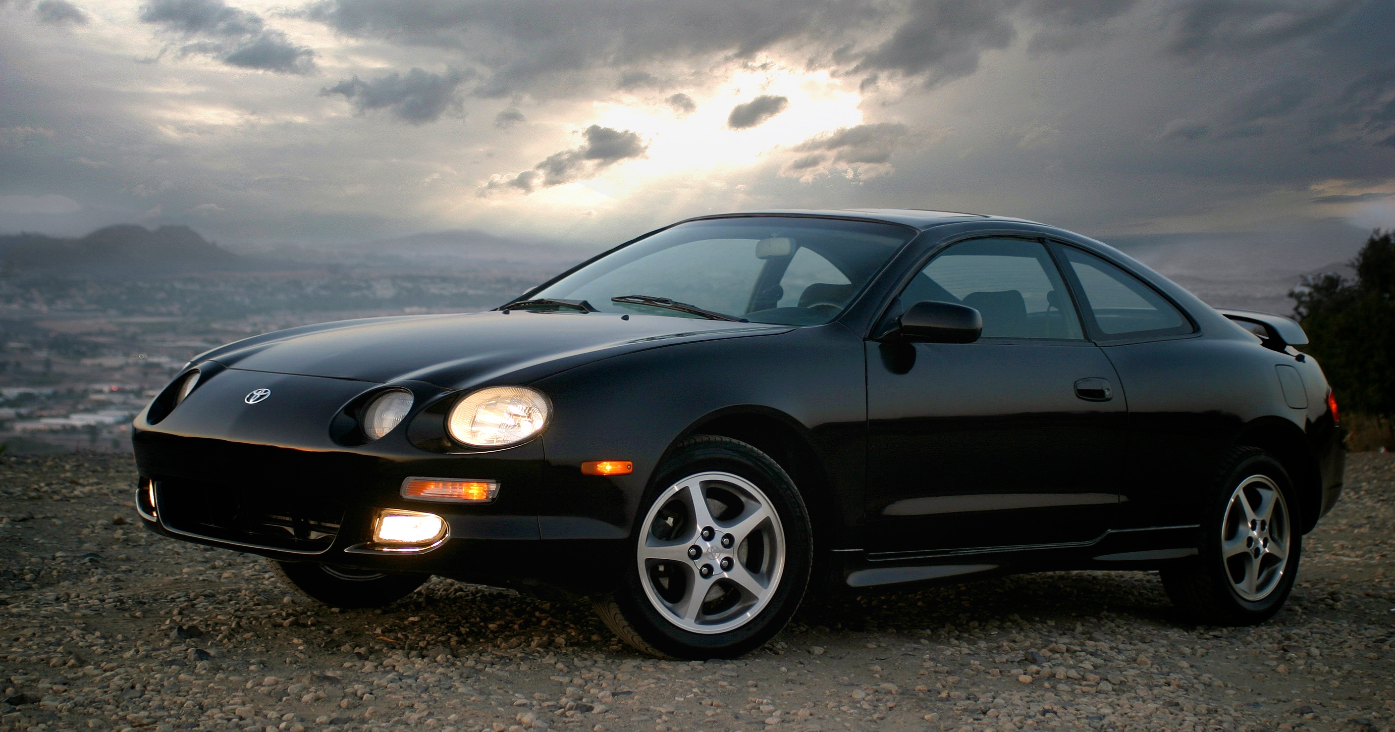 1999 Toyota Celica GT Liftback (ST204L-BLMSKA) shown in Black (colour code 202).